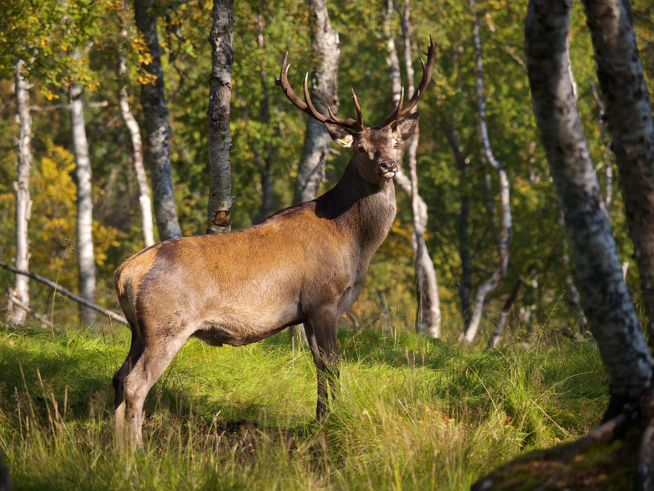 Red Deer (Cervus elaphus), Bardu, Norway